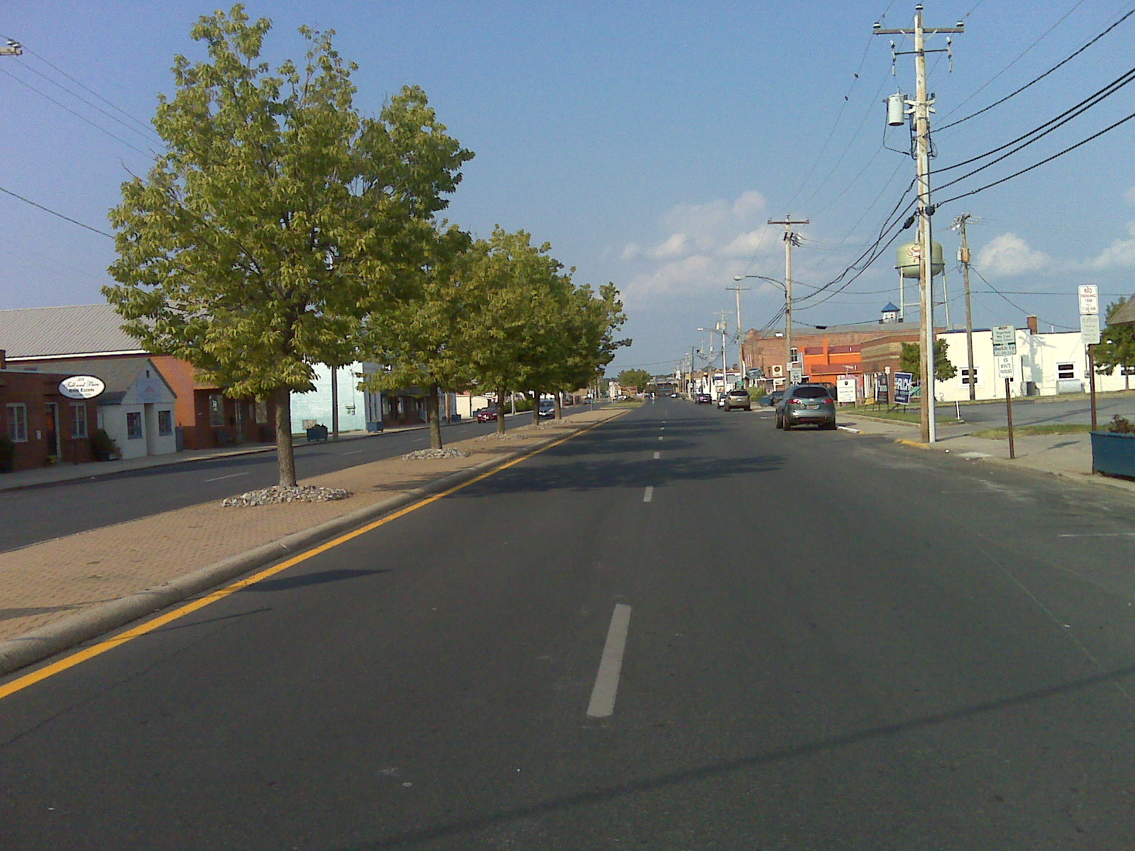 A view of Maryland Route 413 in Crisfield, Maryland, showing the dual highway nature of the route within the city's downtown area.